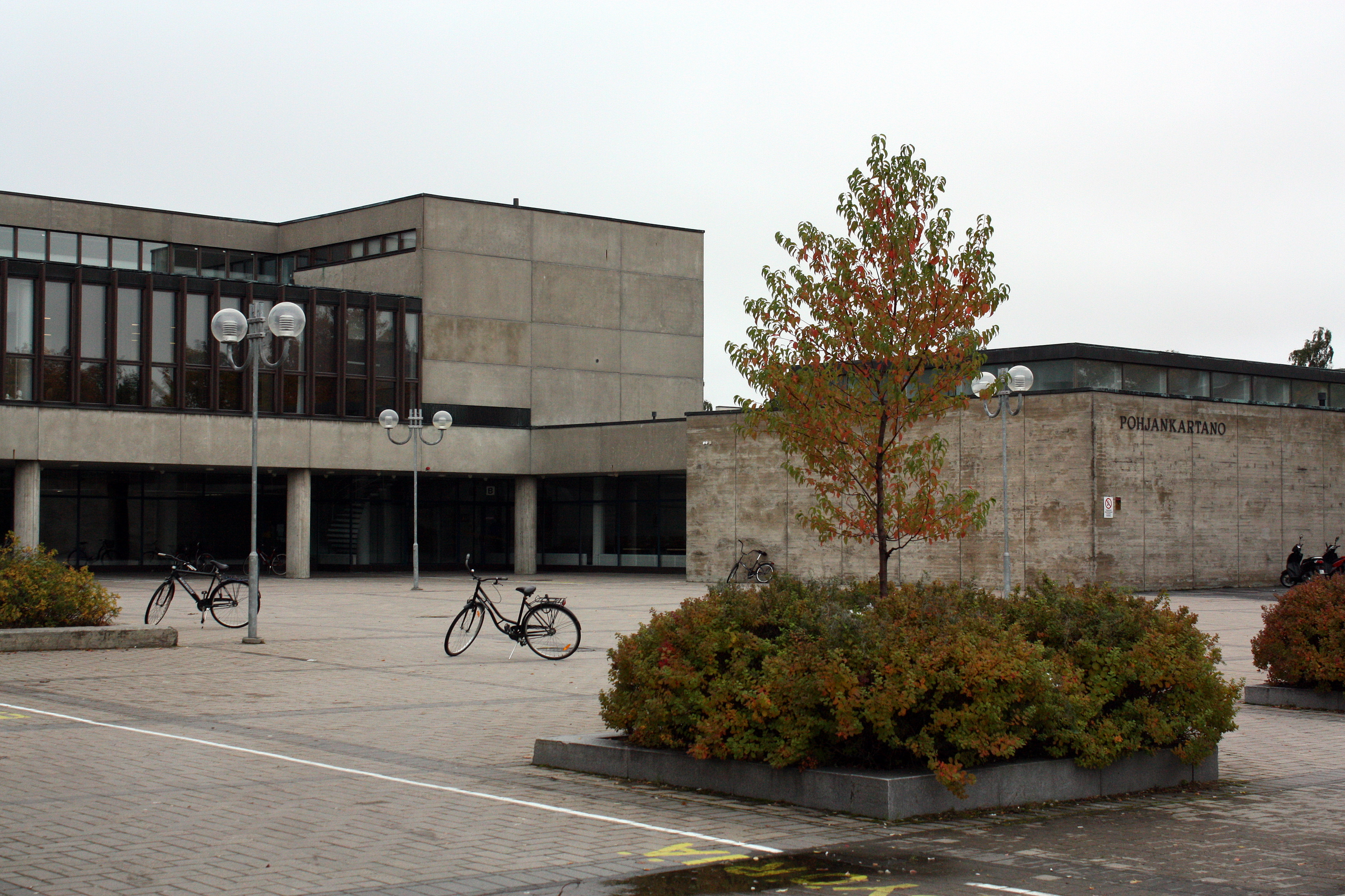 Pohjankartano school in Oulu.